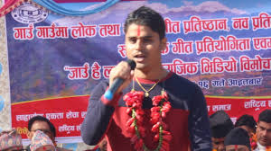 CD Vijaya Adhikari singing during the Lahachok village song publish program in his hometown Lahachok